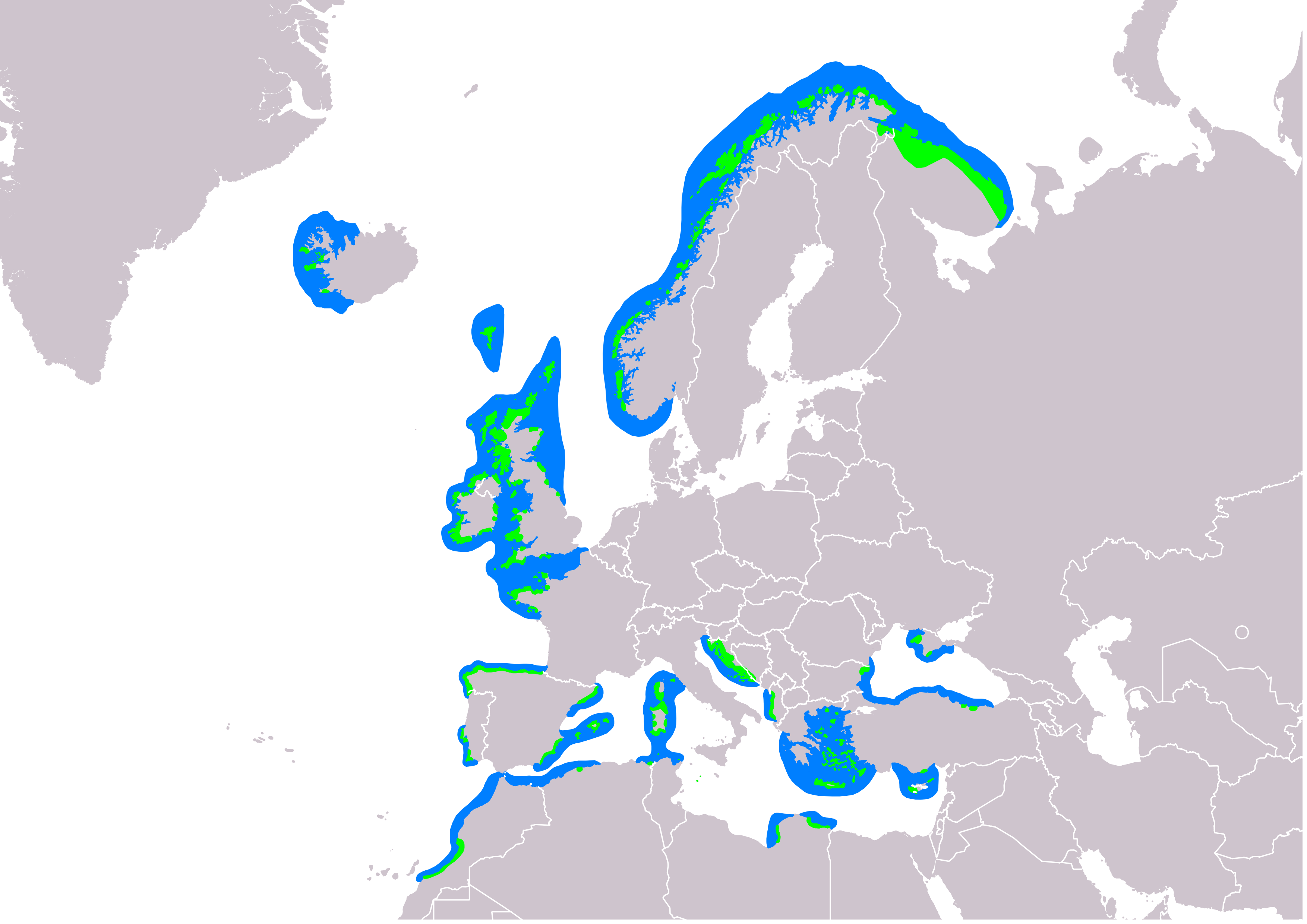 distribution map of european Shag (Gulosus aristotelis) according to IUCN version 2018.2 , Legend: Extant, breeding (#00FF00), Extant, non-breeding (#007FFF)